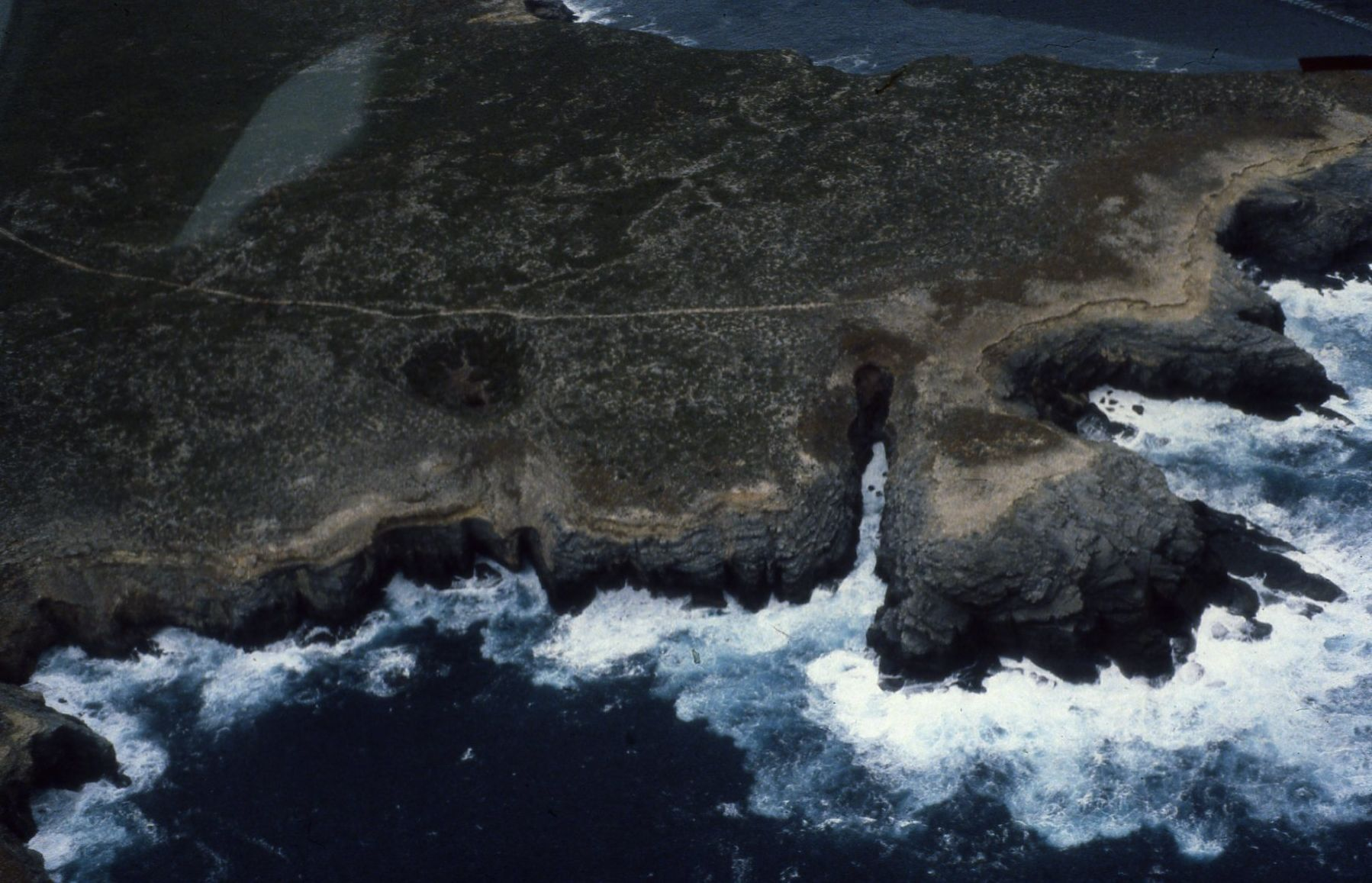 Arial view of LOCH VENNACHAR shipwreck site. Kangaroo Is, South Australia